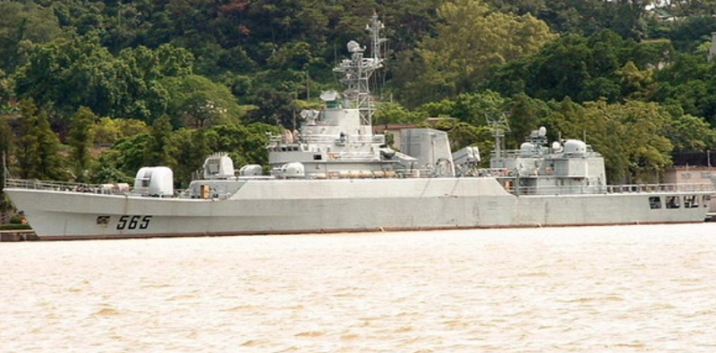 photo taken by Lukacs.